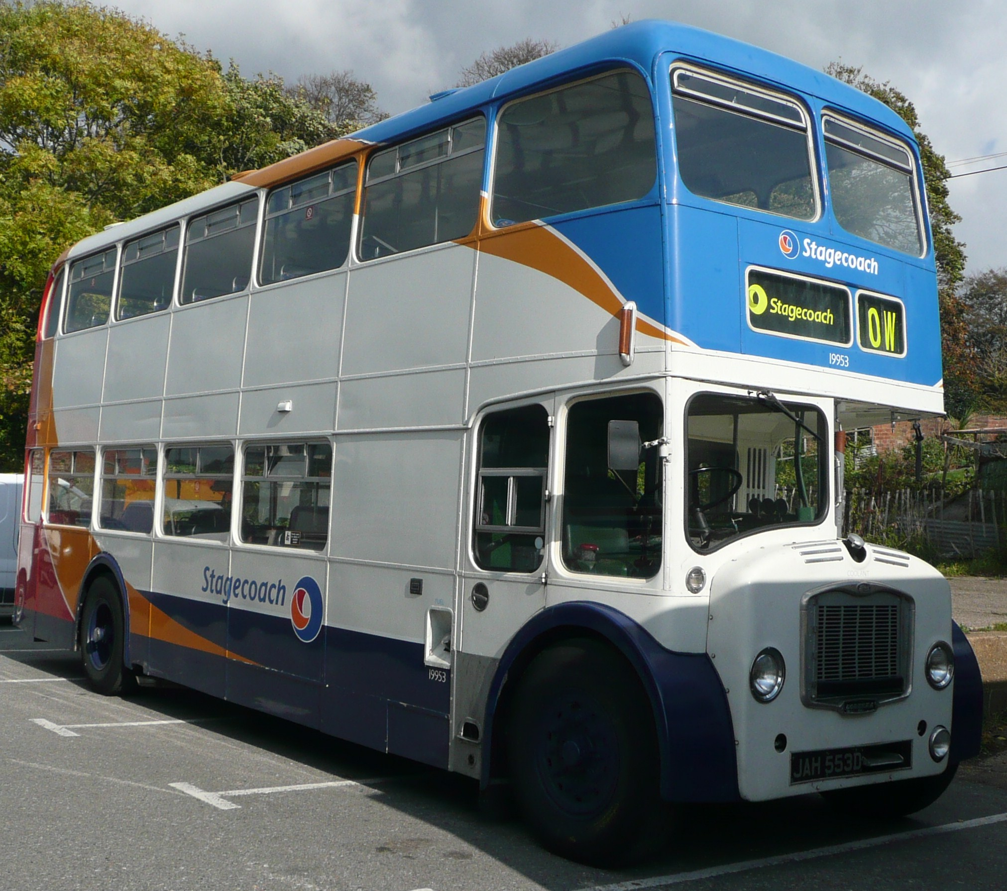 Semi-preserved Stagecoach East 19953 (JAH 553D), a 1966 Bristol Lodekka FLF6G at the 2008 Isle of Wight Bus Museum running day. It was originally operated by United Counties.